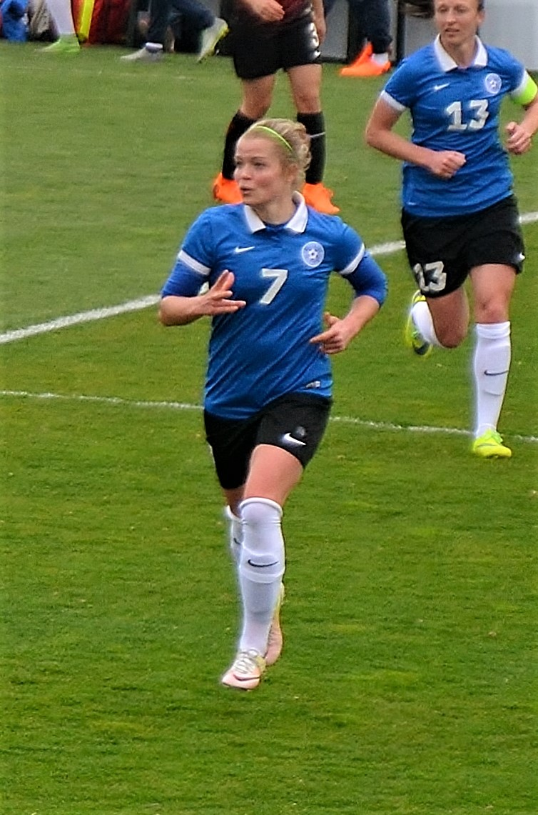 Katrin Loo playing for Estonia women's national football team in the friendly away match against Turkey at TFF Riva Facility on 7 April 2018.